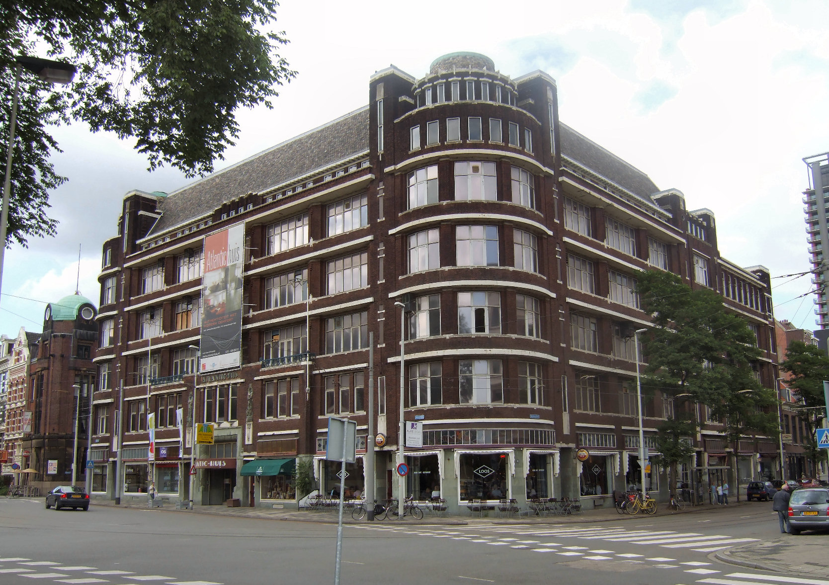 Atlantic House Rotterdam